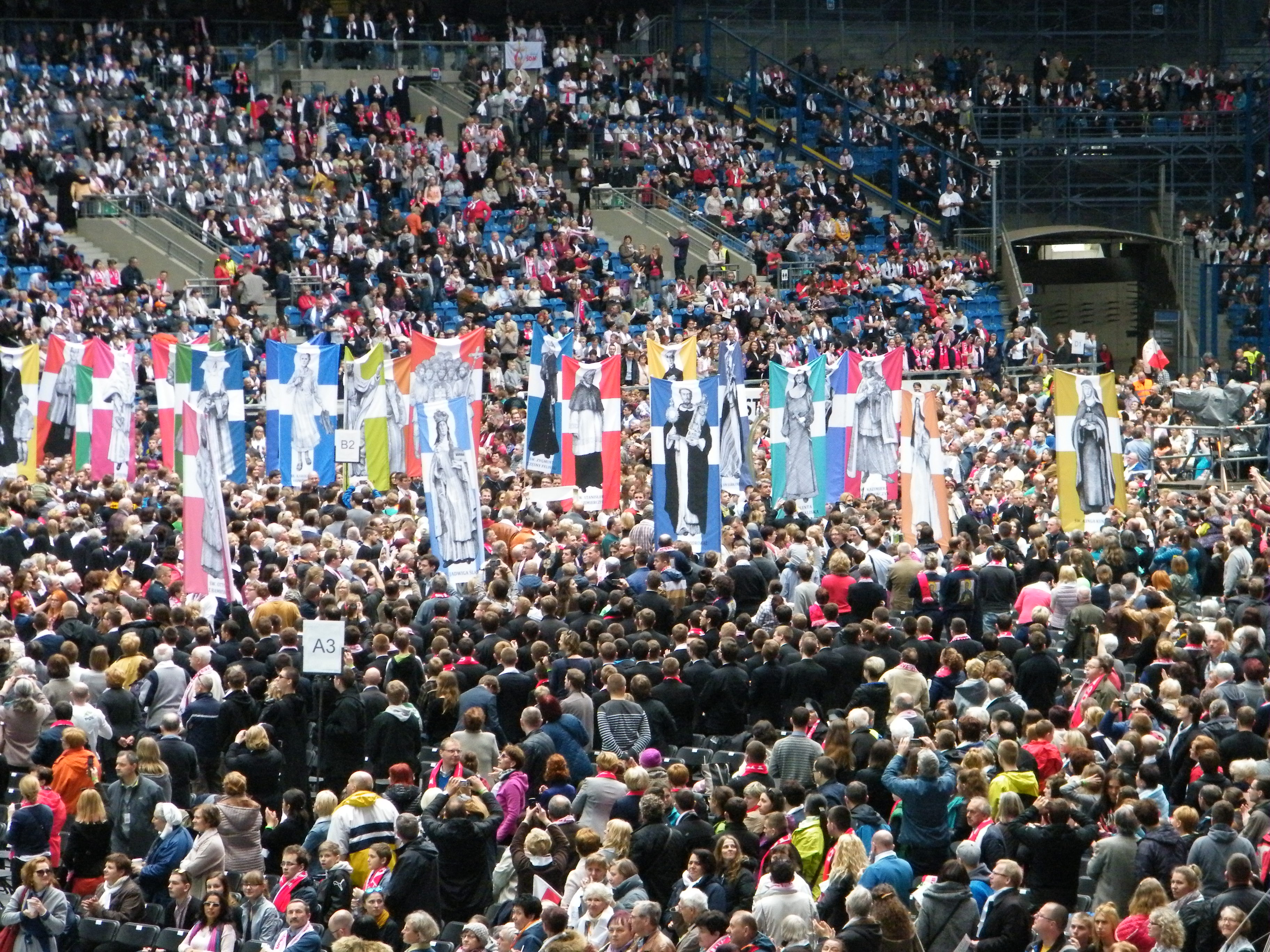 1050th Anniversary of Poland’s Baptism: procession with images of Polish saints during celebrations at the stadium in Poznań